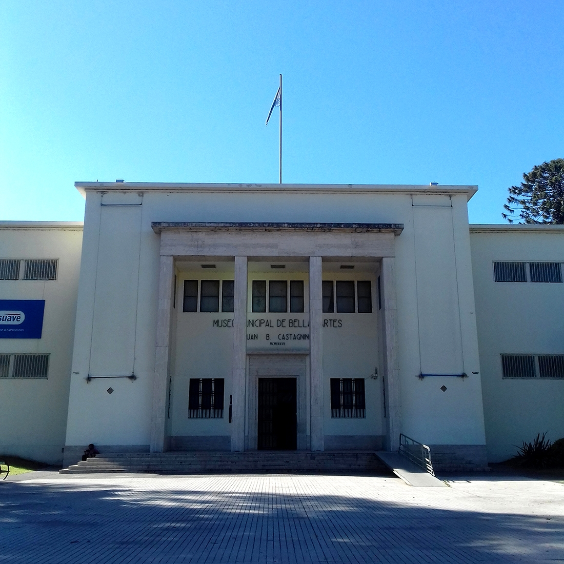 Museo Castagnino - Rosario, Santa Fe. Argentina